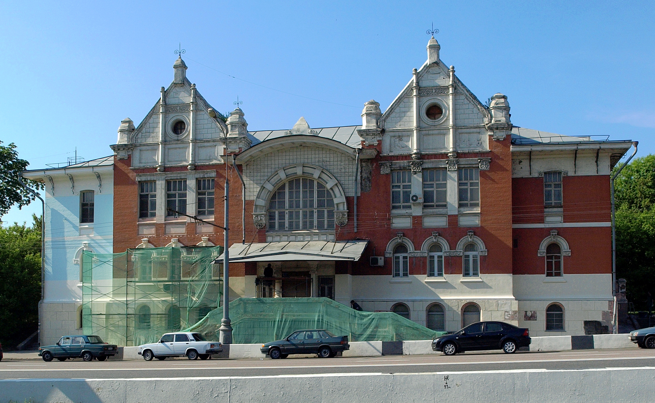 Vorobyovy Gory rail station, Moscow (Small Circle Railroad).